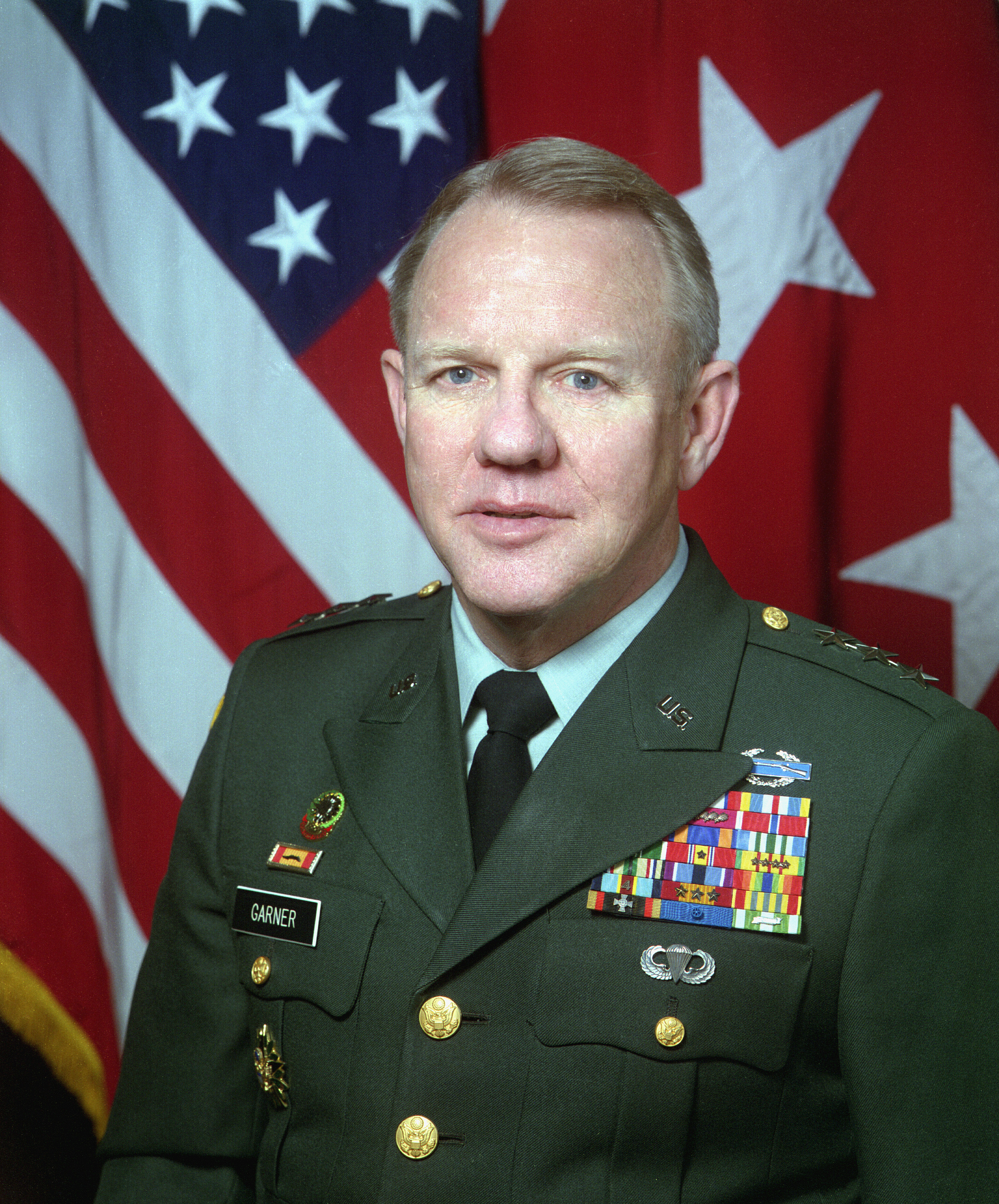 LTG Jay M. Garner, September 1994-October 1996